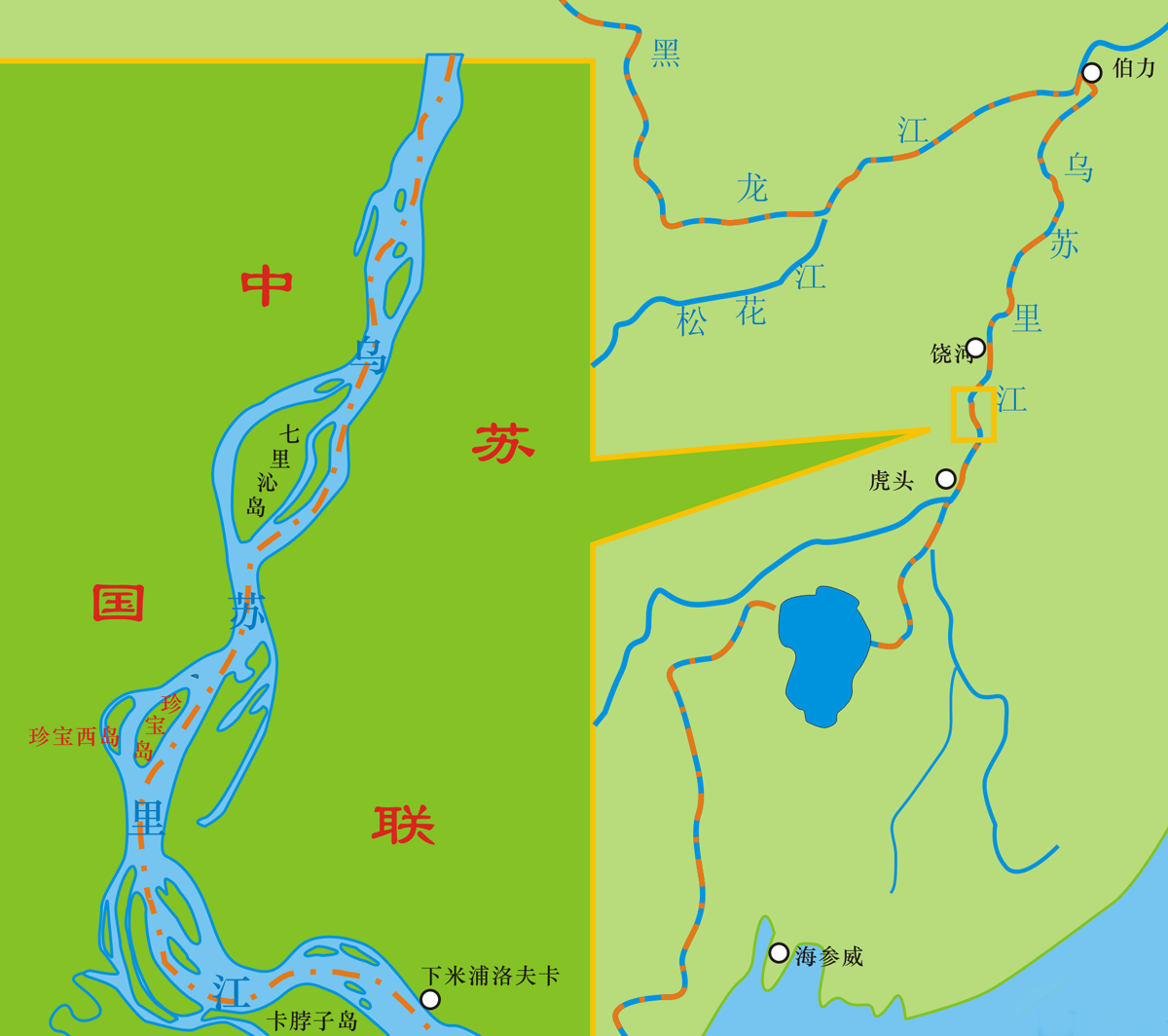 The location of Zhenbao Island